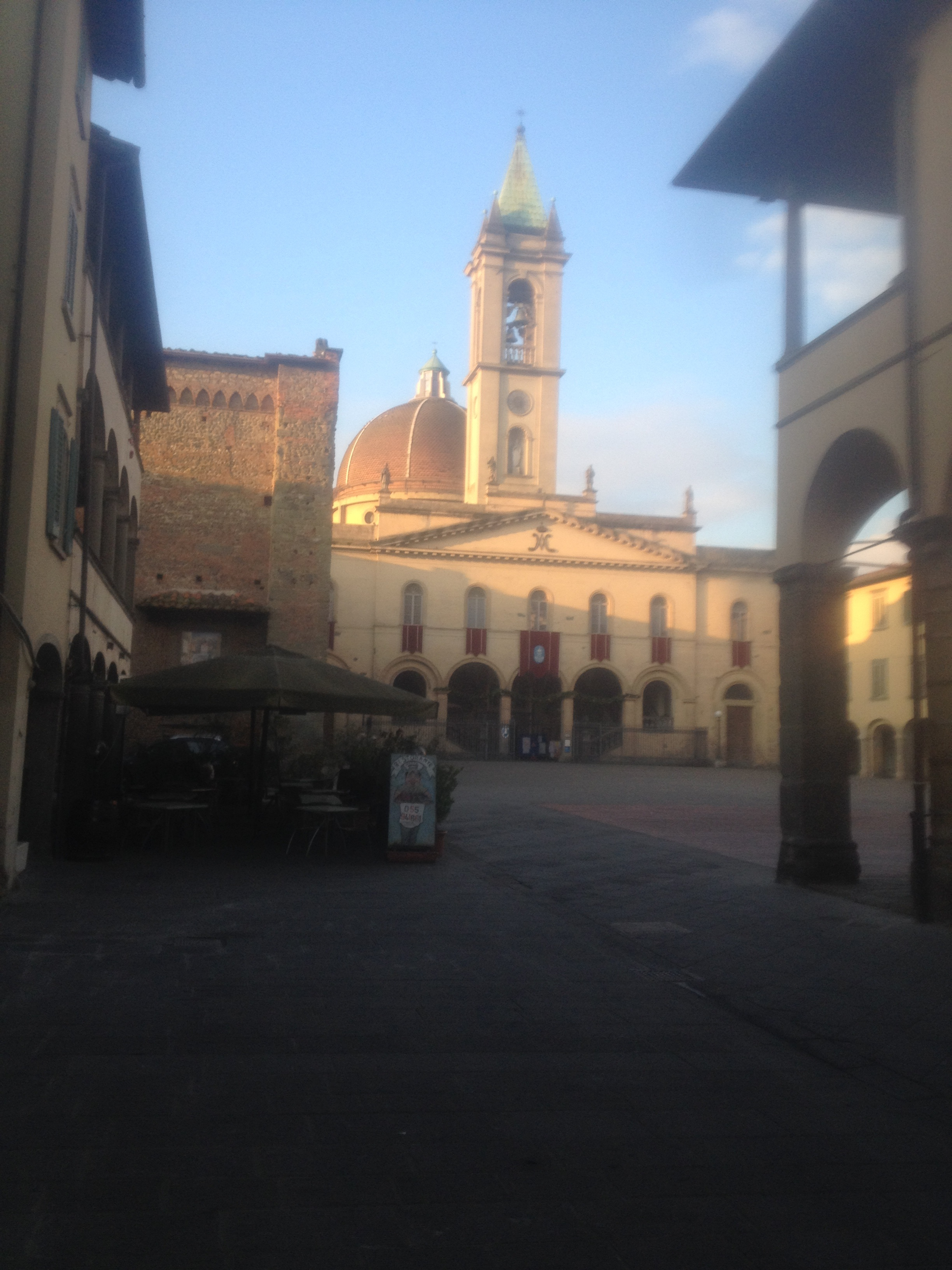 "Santa Maria delle grazie" in San Giovanni Valdarno on the day before Christmas 2015